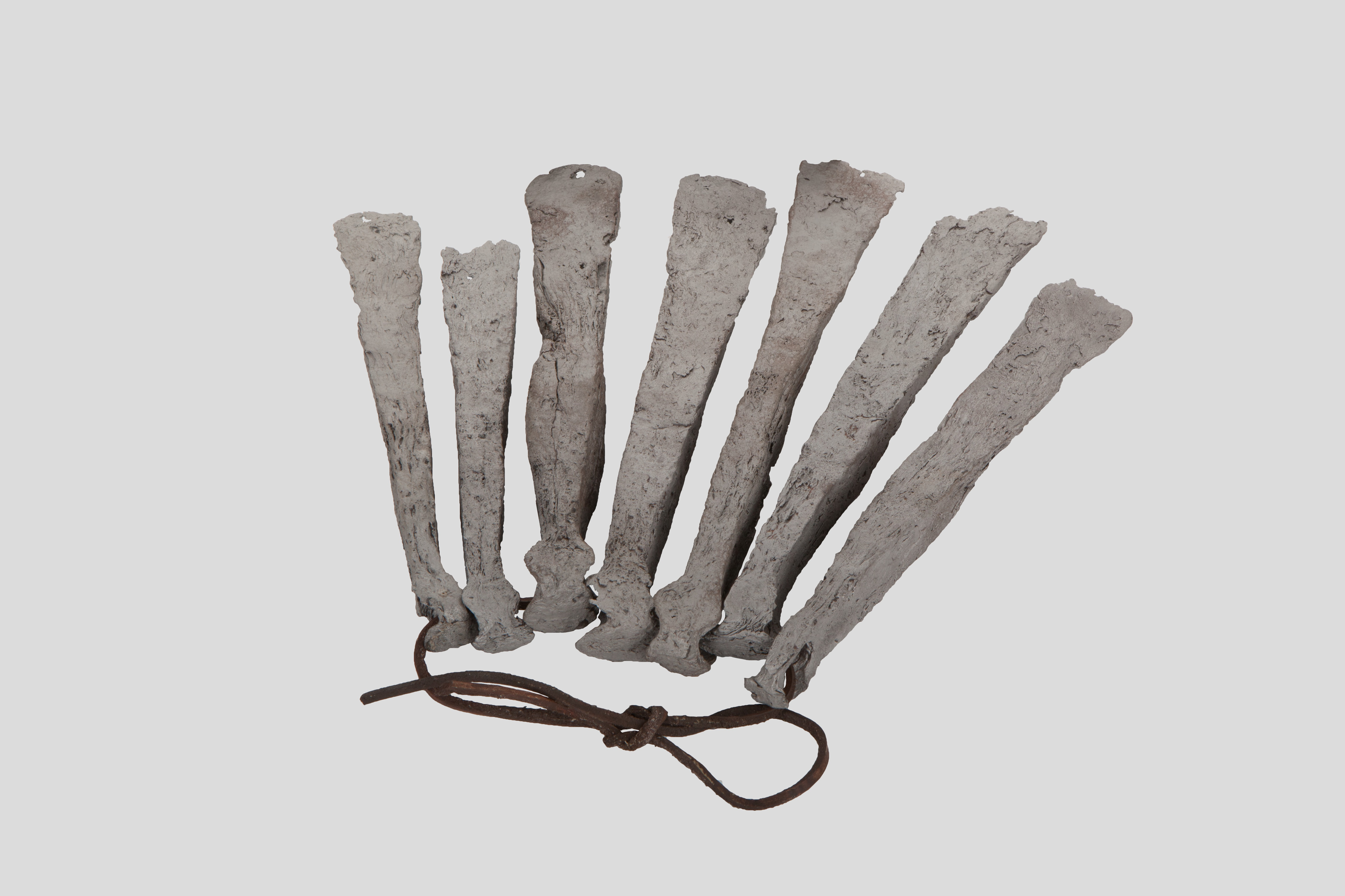 The hoard with iron axe-like bars (grzywna) from 13 Kanonicza Street in Kraków.